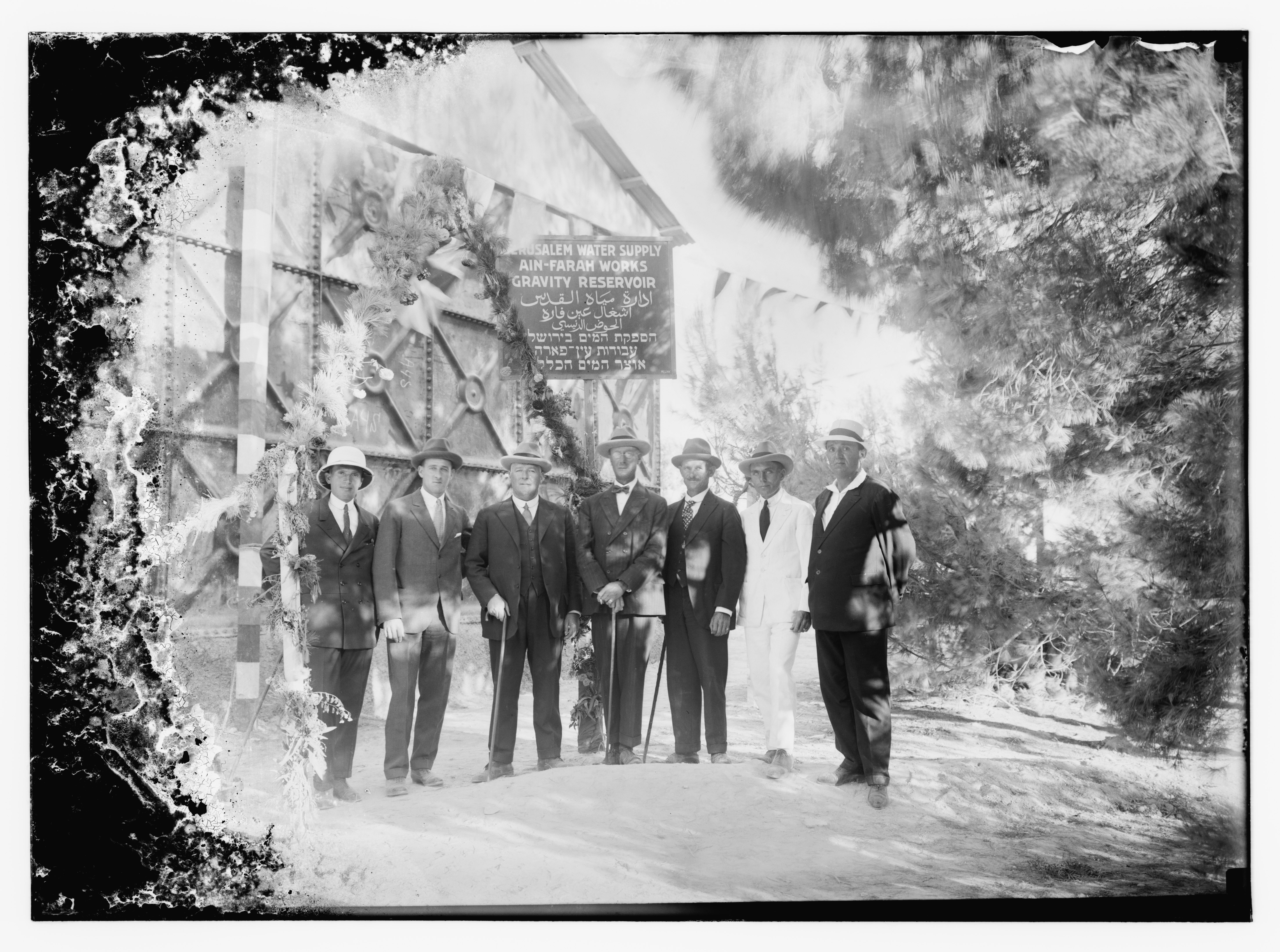 Title: Ain Farah water supply Abstract/medium: G. Eric and Edith Matson Photograph Collection Physical description: 1 negative : - The opening ceremony of the French Hill Water Container 15th July 1926 at part of the Ein Farah water supply system to Jerusalem